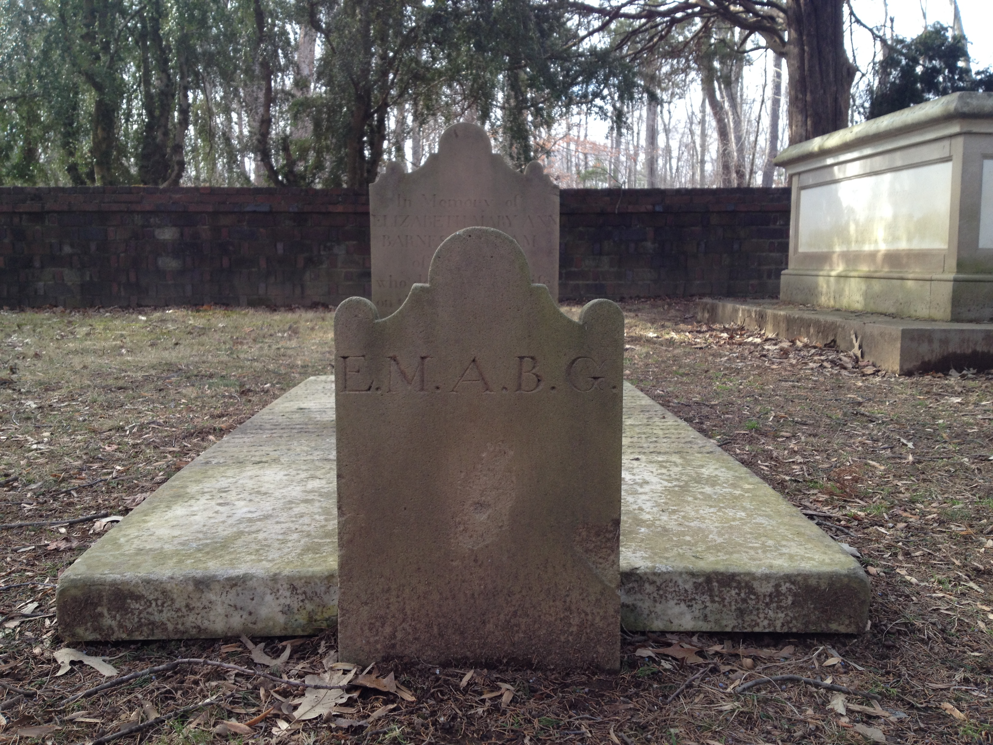 Gunston Hall, photographed on February 2, 2014.